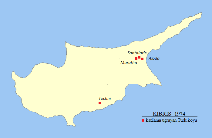 Massacre on Turkish villages in Cyprus in 1974. Source: (Cassia, Paul Sant, Bodies of Evidence, page 237, Berghahn Books, 9781571816467, 2005)